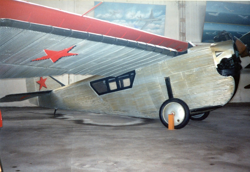 PictionID:42765577 - Title:Tupolev ANT-2 ADDITIONAL INFORMATION: Russia's first all-metal aeroplane, the Tupolev ANT-2, had an enclosed cabin for the passengers but an open cockpit for the pilot. This ANT-2bis was powered by a British 100hp Bristol Lucifer three-cylinder radial engine. - Catalog:15_003529 - Filename:15_003529.tif - ---- Image from the Charles Daniels Photo Collection album "Monino Indoors '93" which includes images taken by Mr. Daniels when he visited the Monino Museum in 1993.----PLEASE TAG this image with any information you know about it, so that we can permanently store this data with the original image file in our Digital Asset Management System.------------SOURCE INSTITUTION: San Diego Air and Space Museum Archive